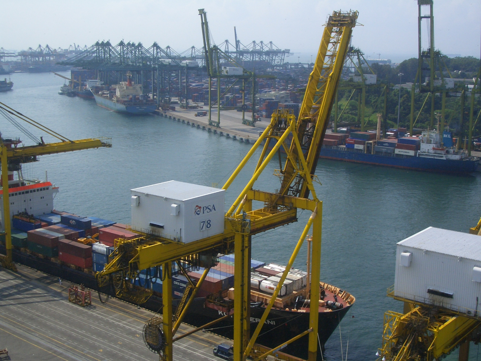 Keppel Container Terminal, Singapore.